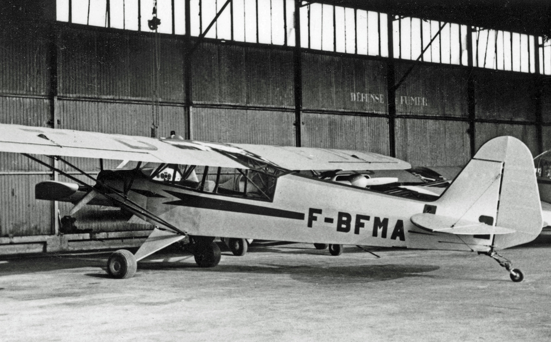 Piper PA-11 Cub Special F-BFMA at Chelles-le-Pin airfield near Paris